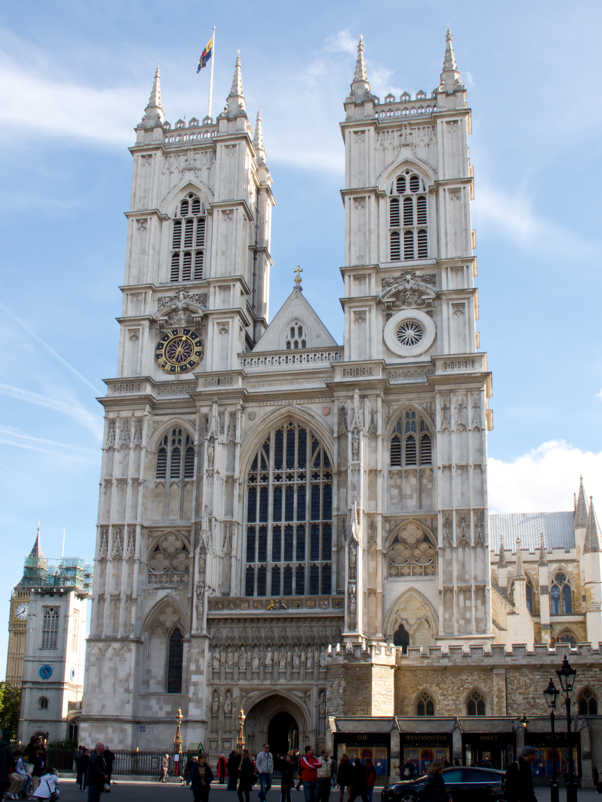 West facade of Westminster Abbey, London, England.